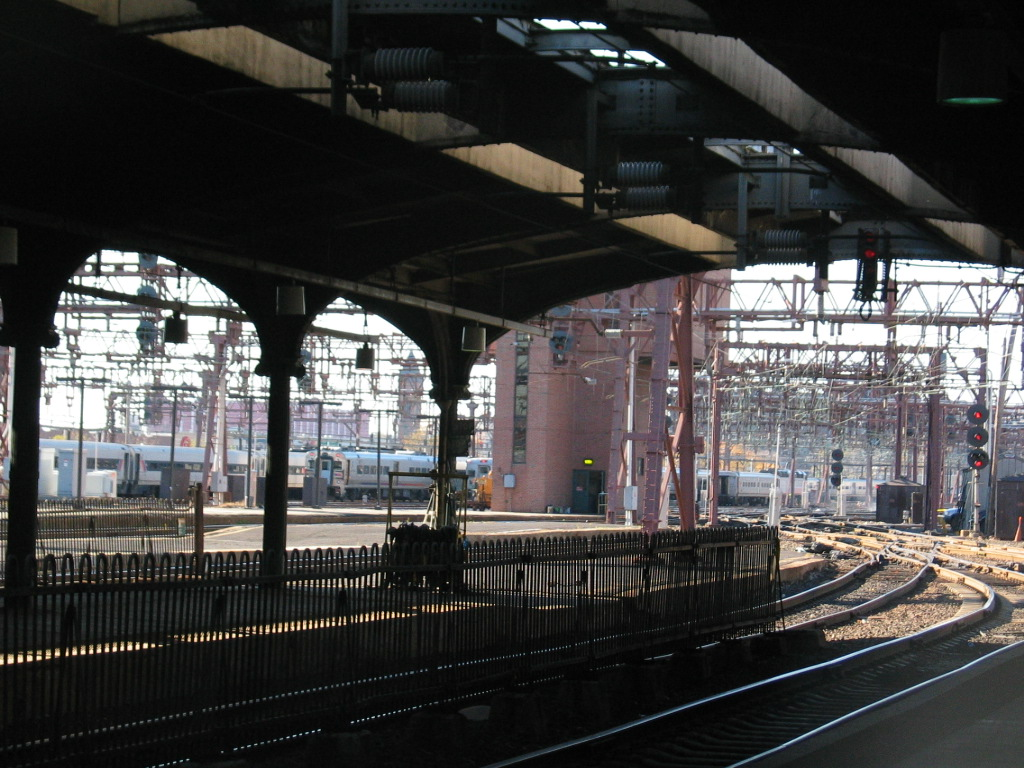 The tracks leading out of Hoboken Terminal